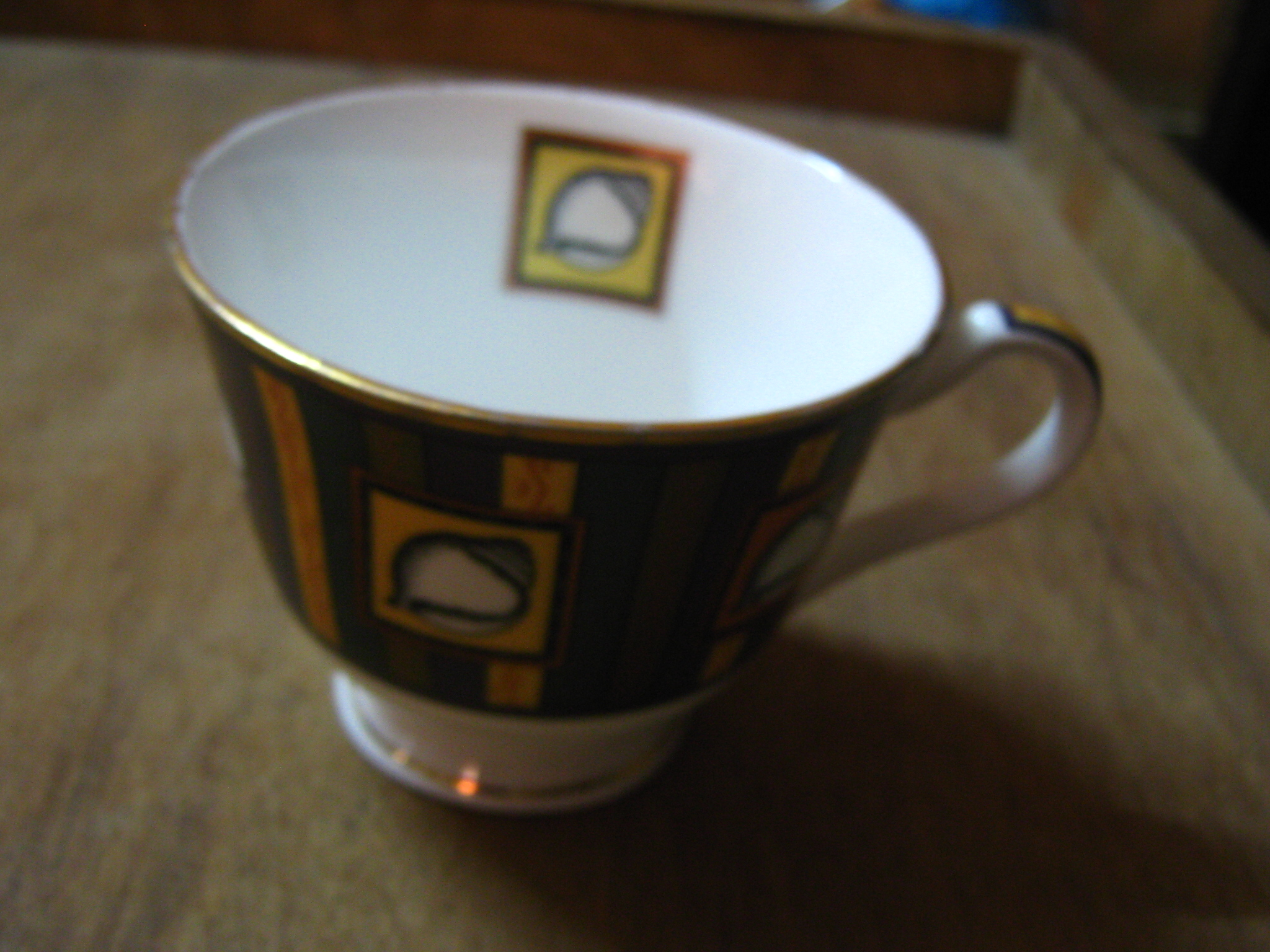 utensils used in Indian kitchen.